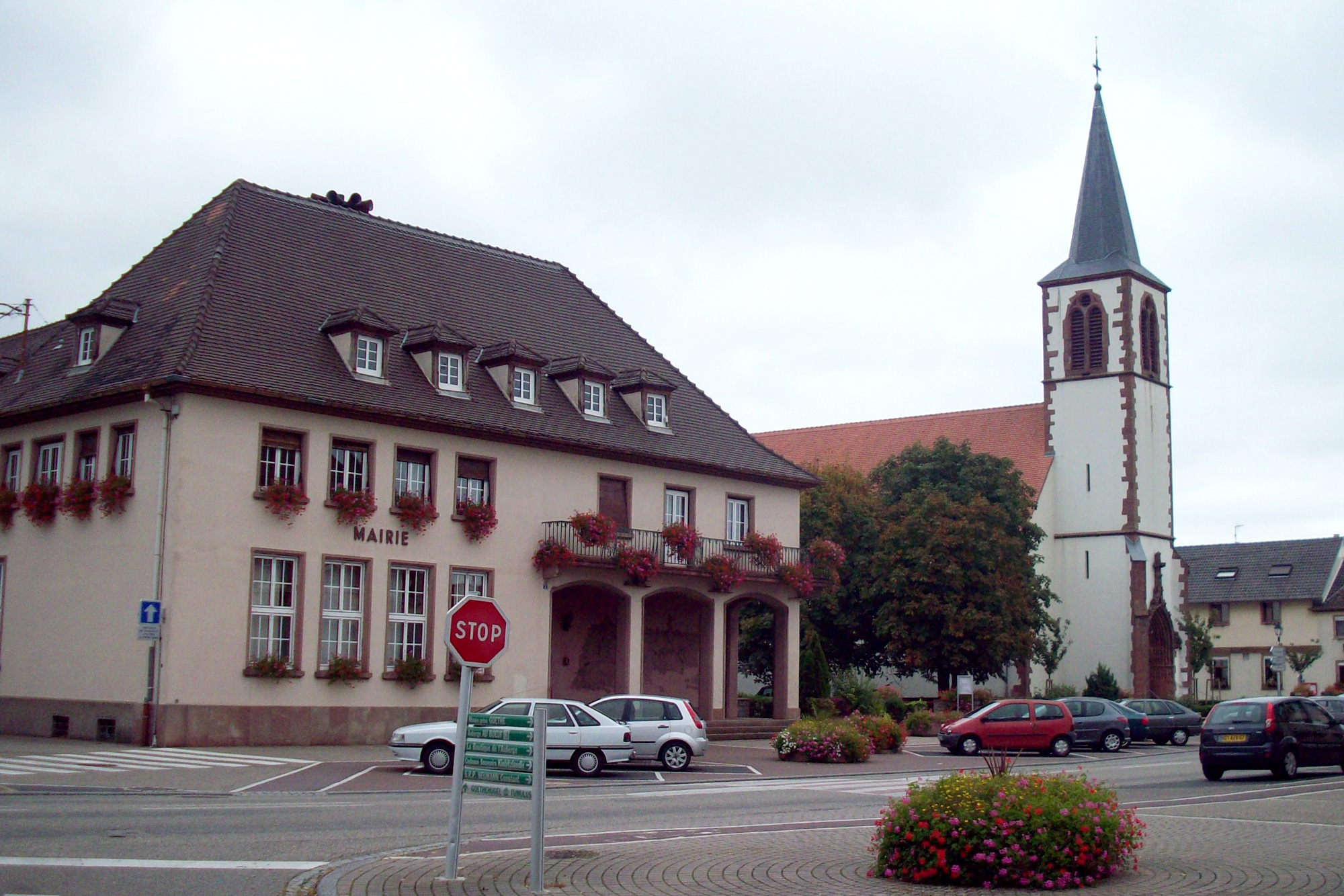 Sessenheim, Place de la Maire